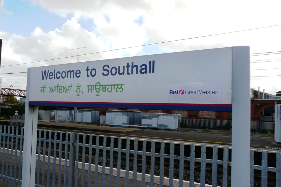 "Welcome to Southall" sign